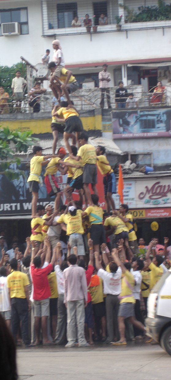 Govinda Pathaks forming human tower to break the dahi handi in Thane